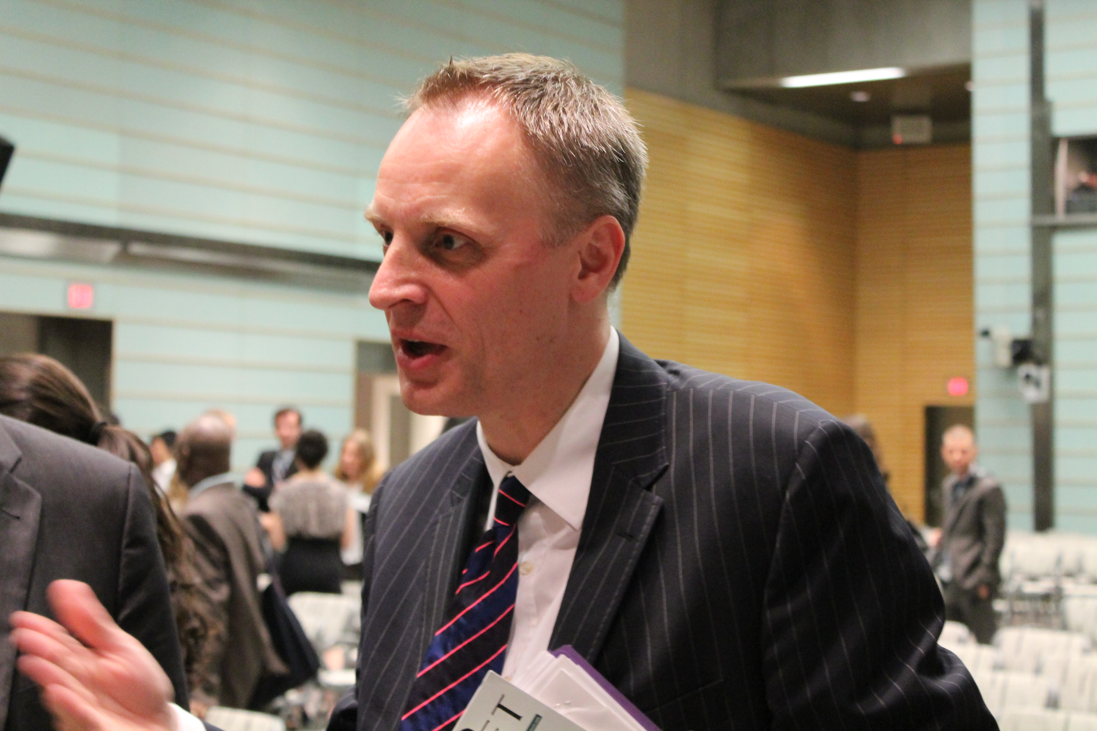 Richard Horton at 2012 International AIDS Conference